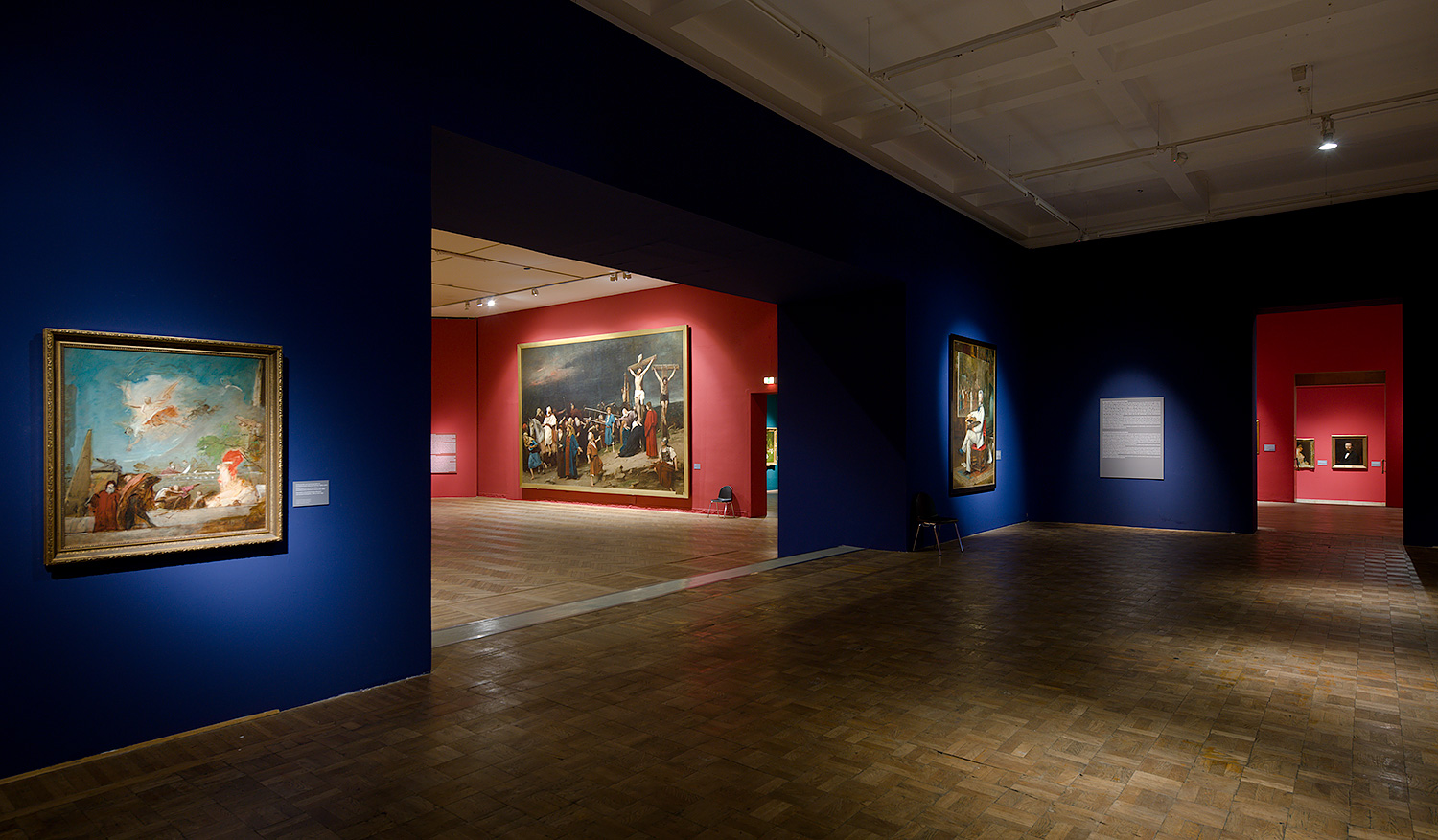 Künstlerhaus Wien / Bécs_Exhibition "Munkácsy. Magic & Mystery" 2012_© Künstlerhaus